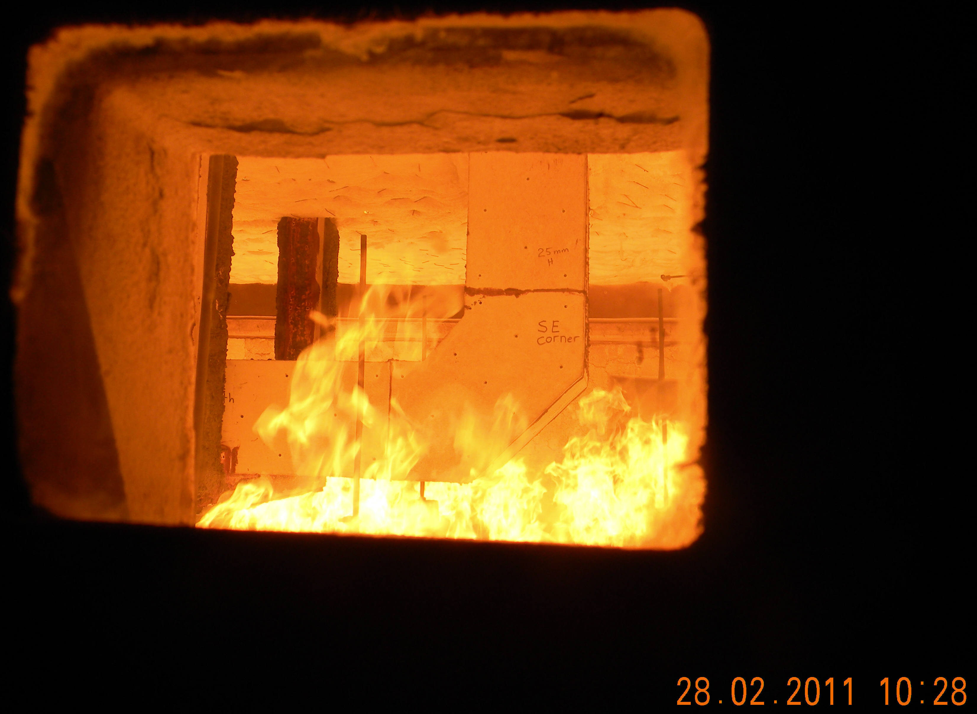 Circuit integrity fire test of fireproofed cable tray per USNRC Generic Letter 86-10 Supplement 1 in progress, as seen through a porthole in the full scale floor furnace.